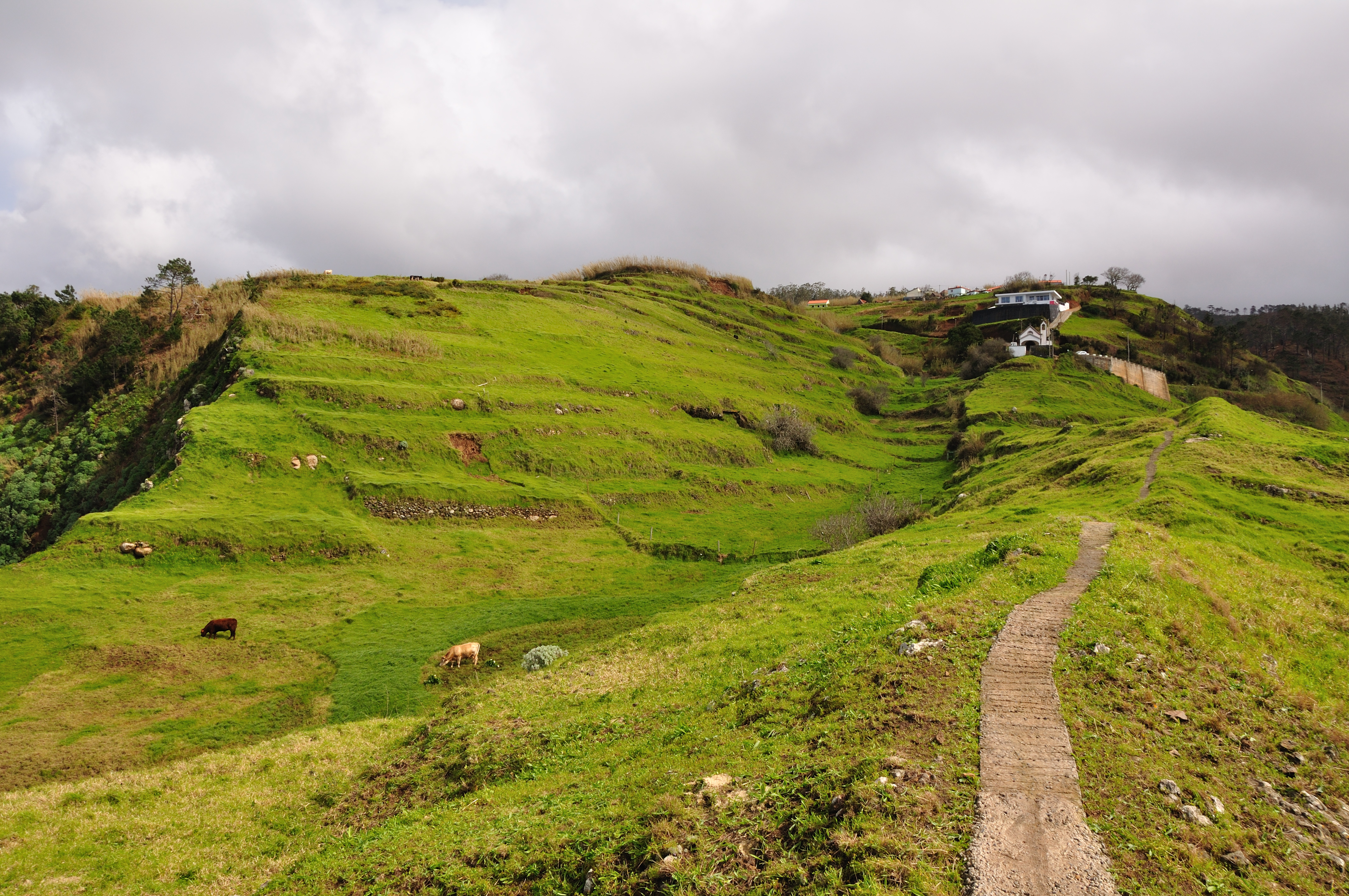 Portugal, Madeira, trail to the view point below Lombada Velha